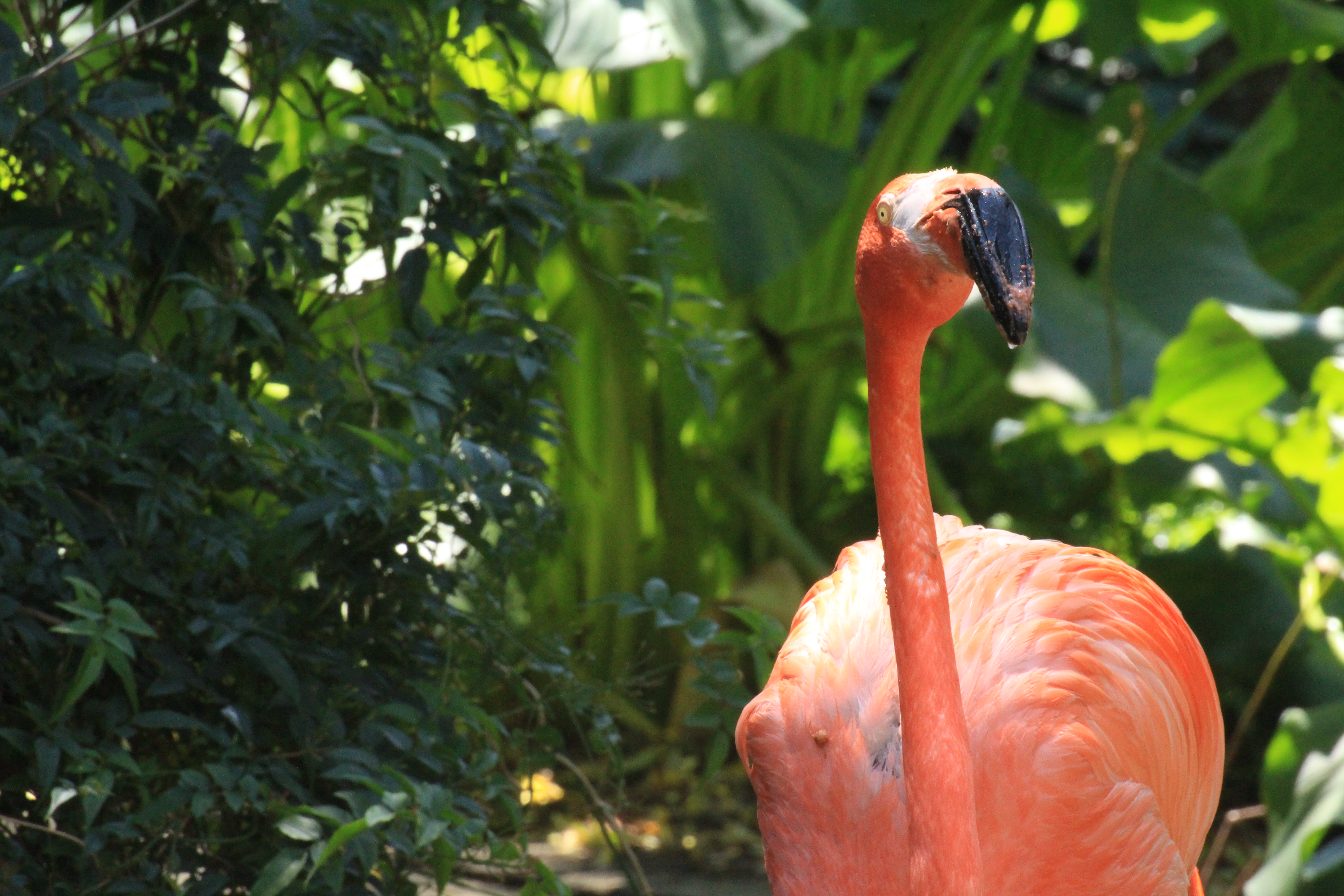 Beautiful flamingo